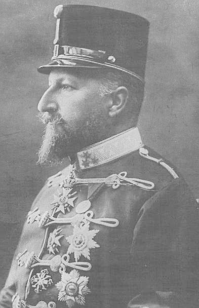 (wp-EN) Ferdinand I of Bulgaria (1860-1927), Prince Regnant (1887-1908) then Tsar of Bulgaria (1908-1918).